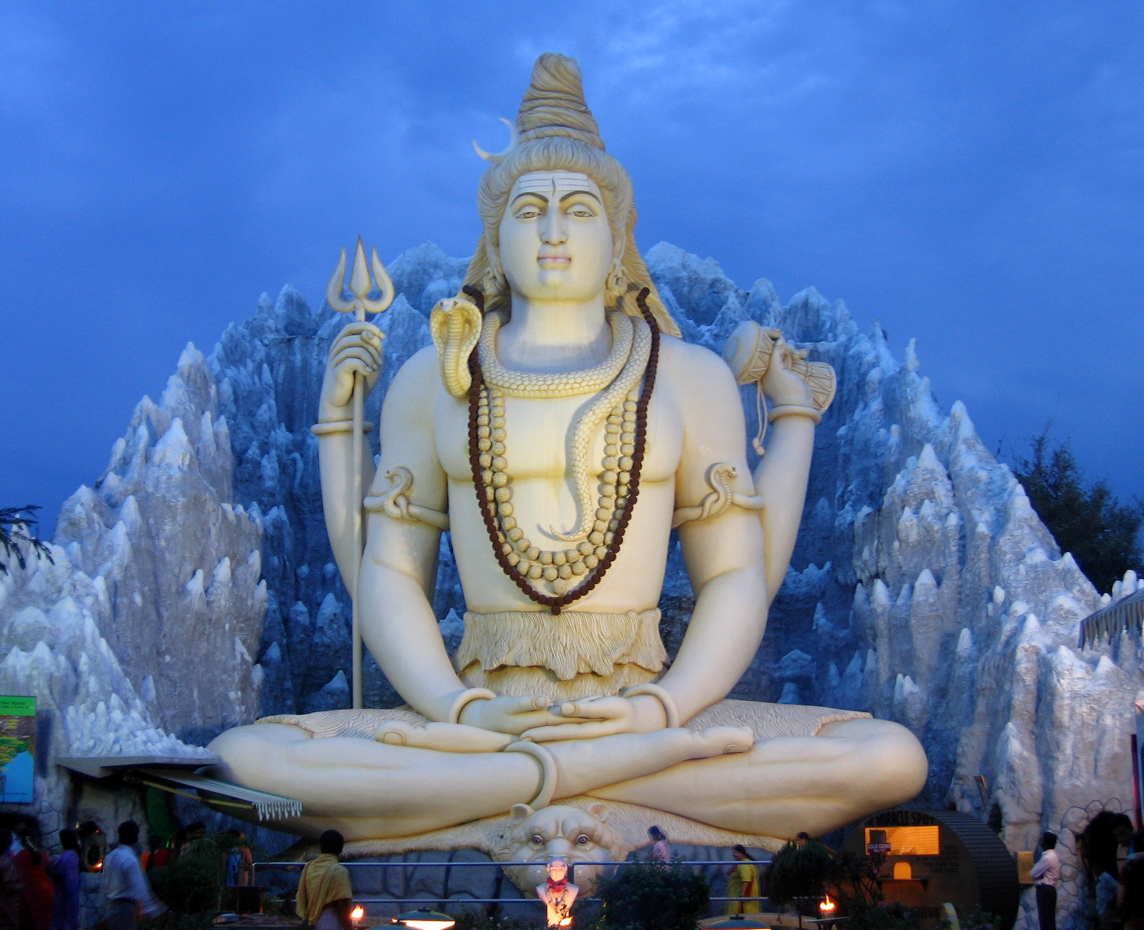 Behind Kemp Fort on Airport Road, Bangalore.